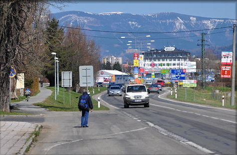 Slip road from Šumperk